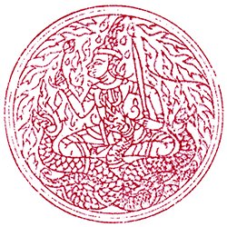 Seal of Lampang's rulers